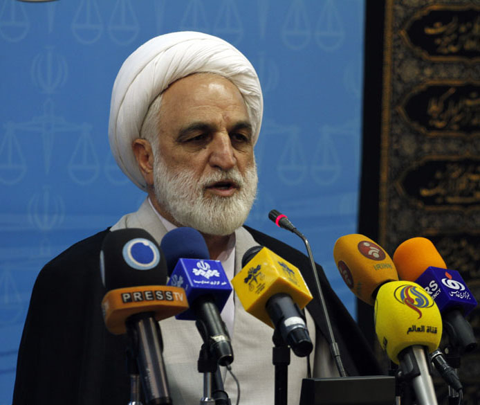 87th press conference of Gholam-Hossein Mohseni-Eje'i, current spokeman of Judiciary System of the Islamic Republic of Iran.